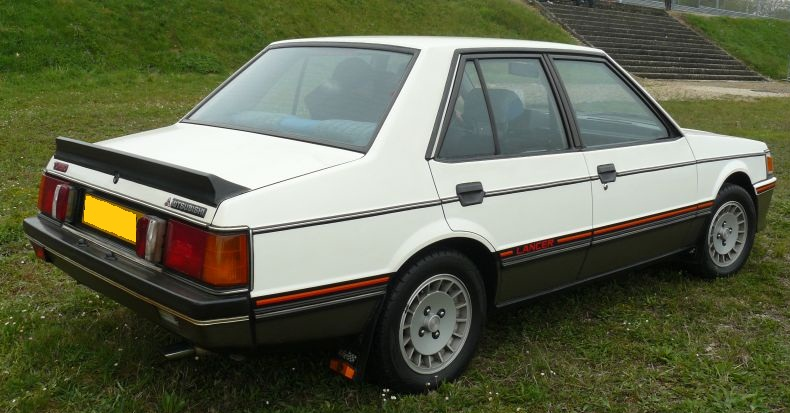 Mitsubishi Lancer EX 2000 Turbo, photographed at Autodrome de Linas-Montlhéry, France